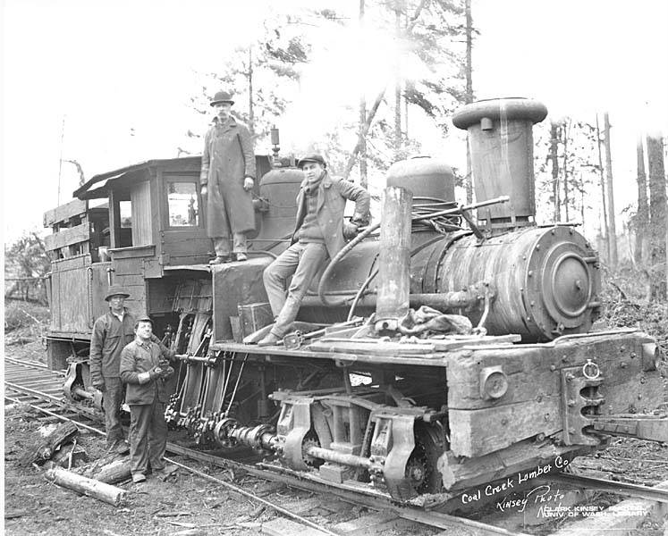 Caption on image: Coal Creek Lumber Co. Kinsey Photo. No. 1 PH Coll 516.576The Coal Creek Lumber Company opened in 1905, with owners C. L. Brown, A. H. Brown and D. A. Clark. They built a sawmill and shingle mill at Chehalis, Lewis County, and their own railroad up Coal Creek to the logging camps. They operated their own crews and cut both fir and cedar. They soon earned a reputation for superior quality lumber and the railroads became good customers, as they needed strong wood for bridge timbers and car parts. During the depression many mills closed but Coal Creek Lumber never missed a day, due in part to the railroad business. Subjects (LCTGM): Railroad locomotives--Washington (State); Lumber industry--Washington (State); Coal Creek Lumber Company--People--Washington (State); Coal Creek Lumber Company--Equipment & supplies--Washington (State); Lewis County (Wash.) Subjects (LCSH): Shay locomotives; Locomotive engineers--Washington (State)--Lewis County; Locomotive firemen--Washington (State)--Lewis County